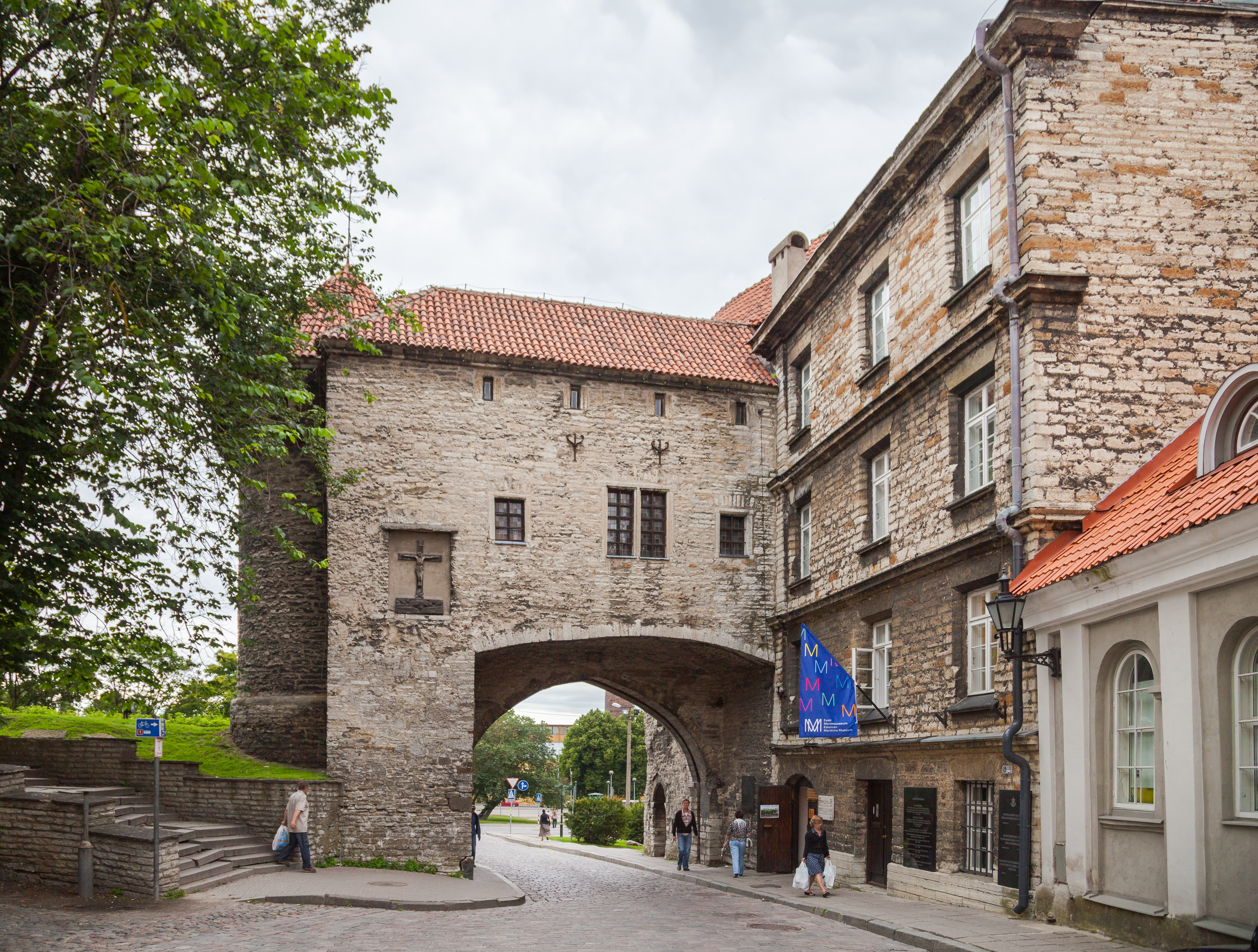 Great Coastal Gate, Tallinn, Estonia